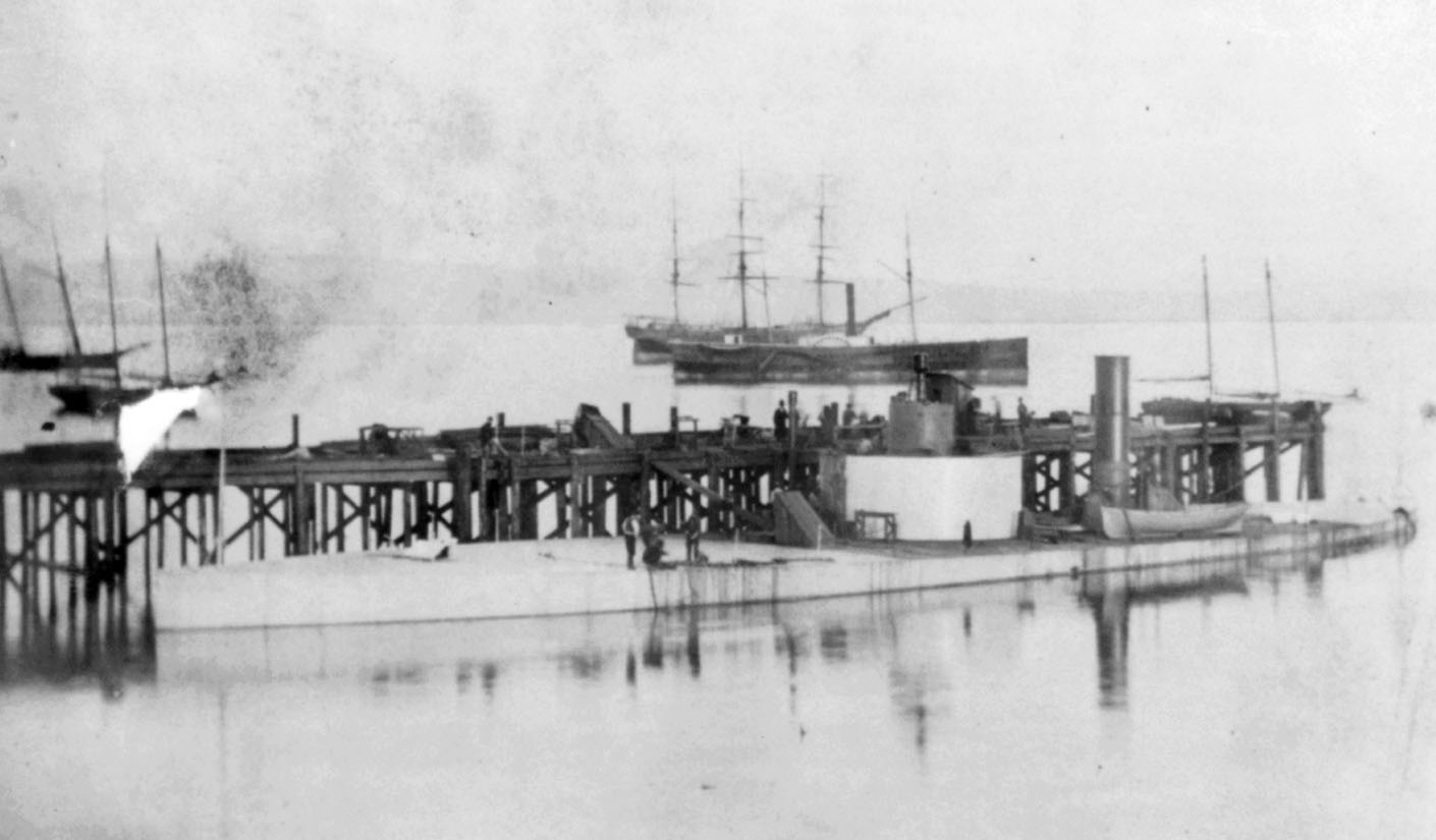 USS Camanche (1864), for several years immediately after the Civil War the only ironclad on the US West coast.